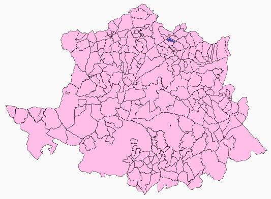 Segura de Toro